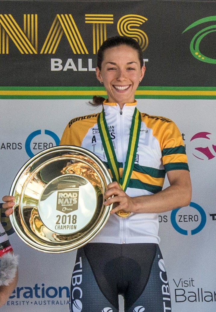 Shannon Malseed in the Australian National Champion jersey